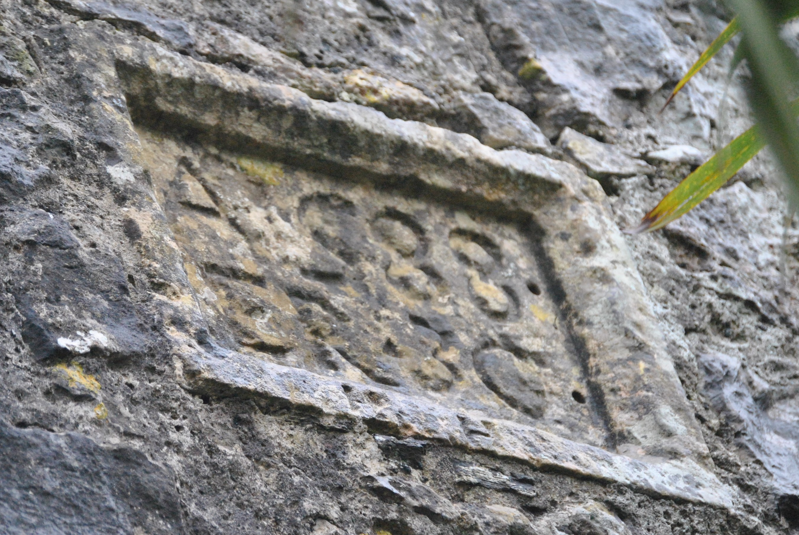 Tenby town wall Elizabethan plaque showing the date of the repair of the walls in 1588 (ER30 - the 30th year of Queen Elizabeth Regina being on the throne)